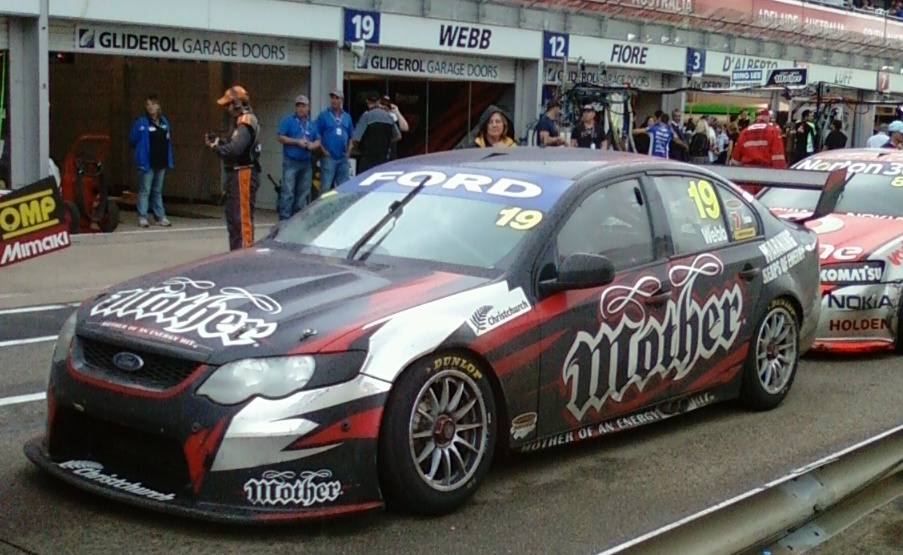 The Mother Energy Racing Team entered Ford FG Falcon of Jonathon Webb at the 2011 Clipsal 500 Adelaide.